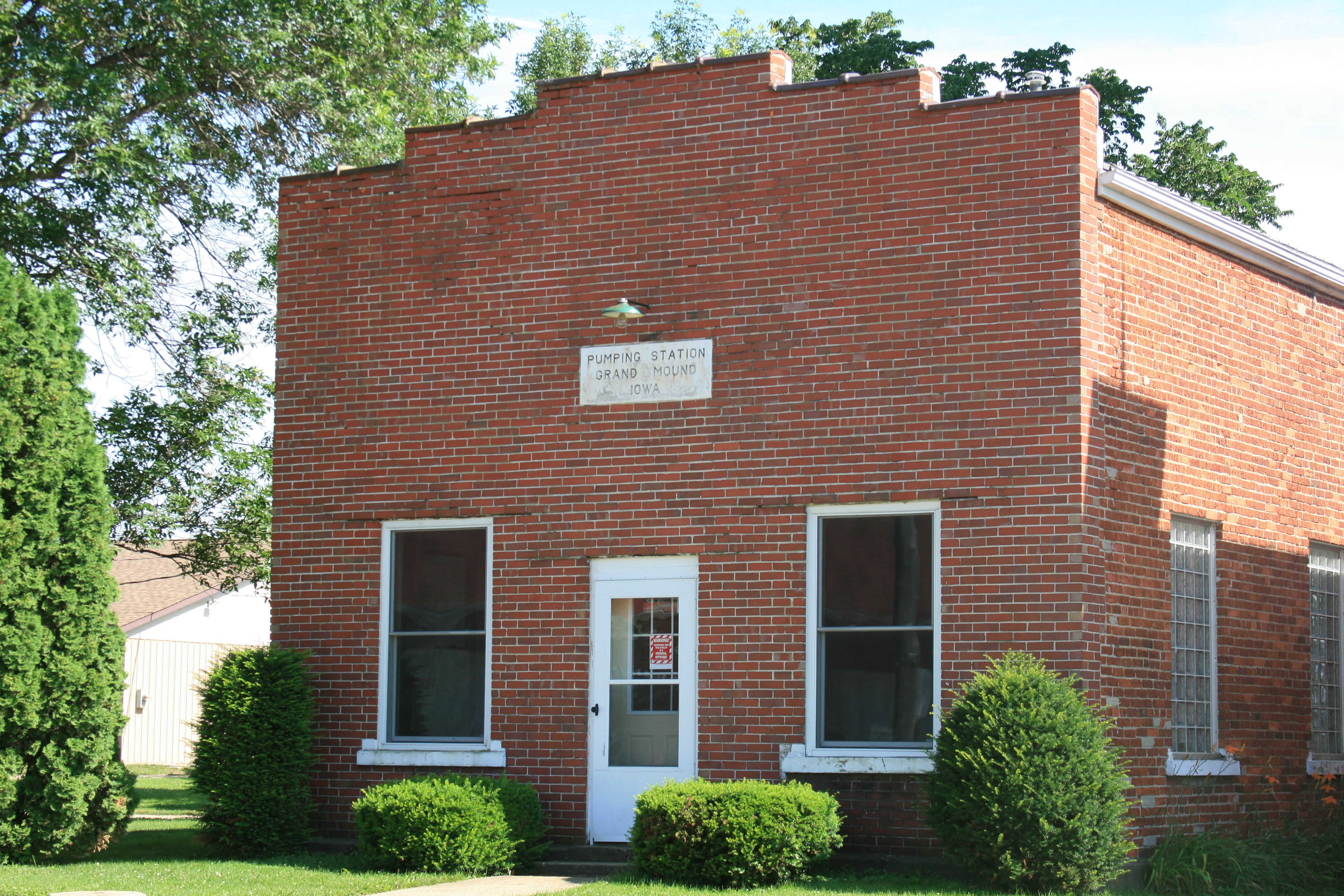 Water pumping station for Grand Mound — in the Grand Mound Town Hall and Waterworks Historic District, Iowa.